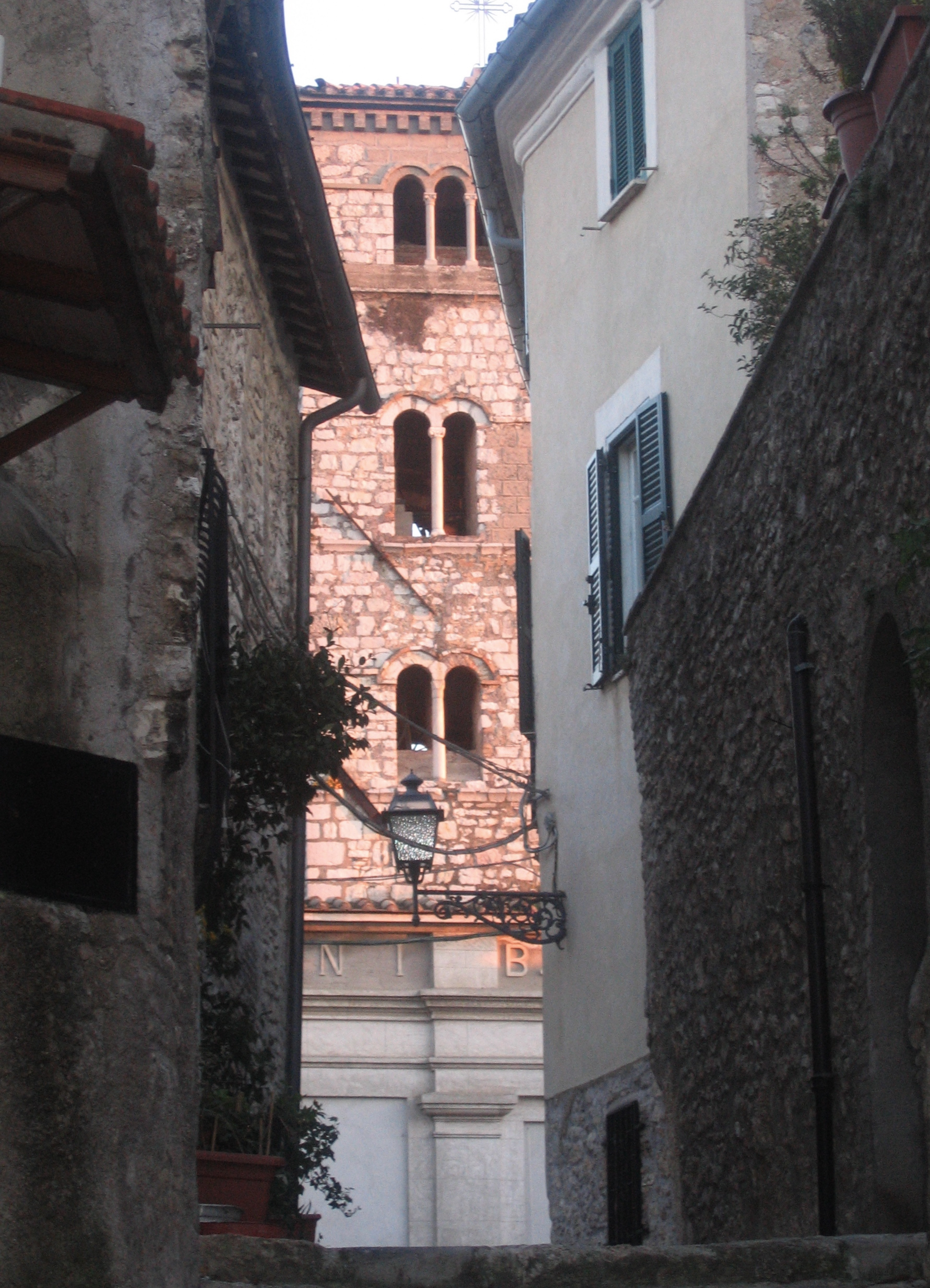 Bell tower on Casperia